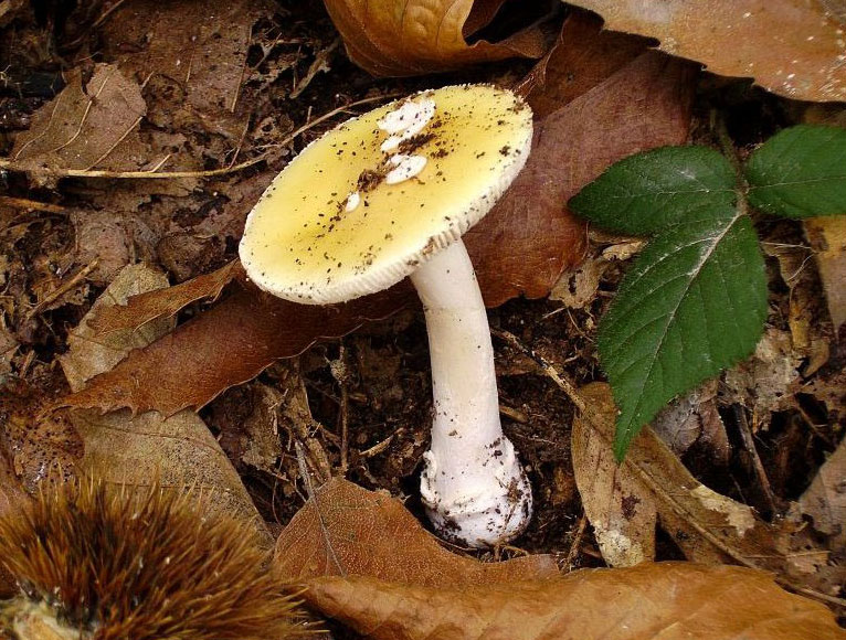 Amanita junquillea - Monte Serra (PI) - 10/2006